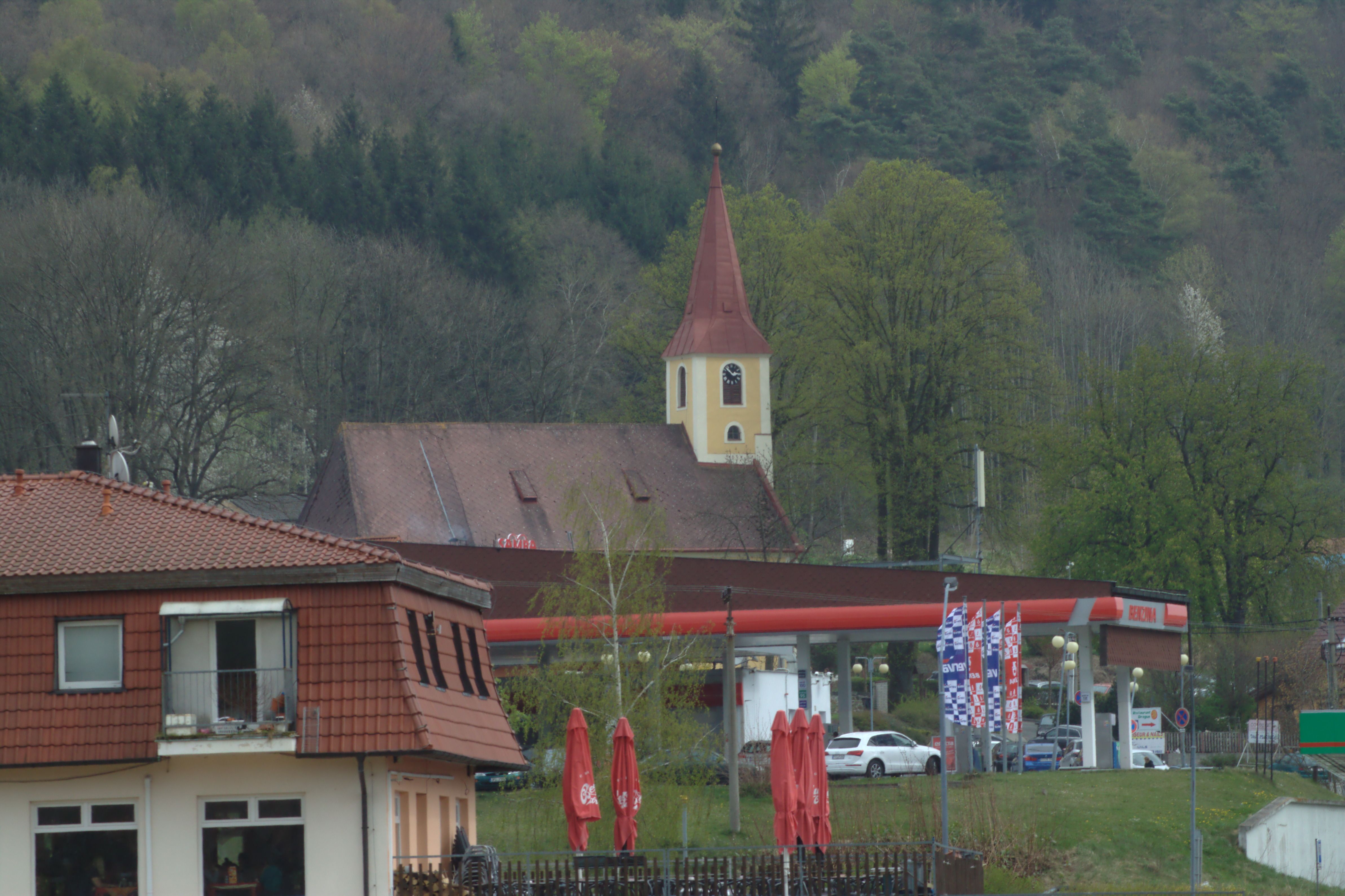 A view towards Horní Folmava, Plzeň Region, CZ